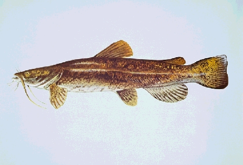 This is a picture of a spotted catfish (Ameiurus serracanthus).